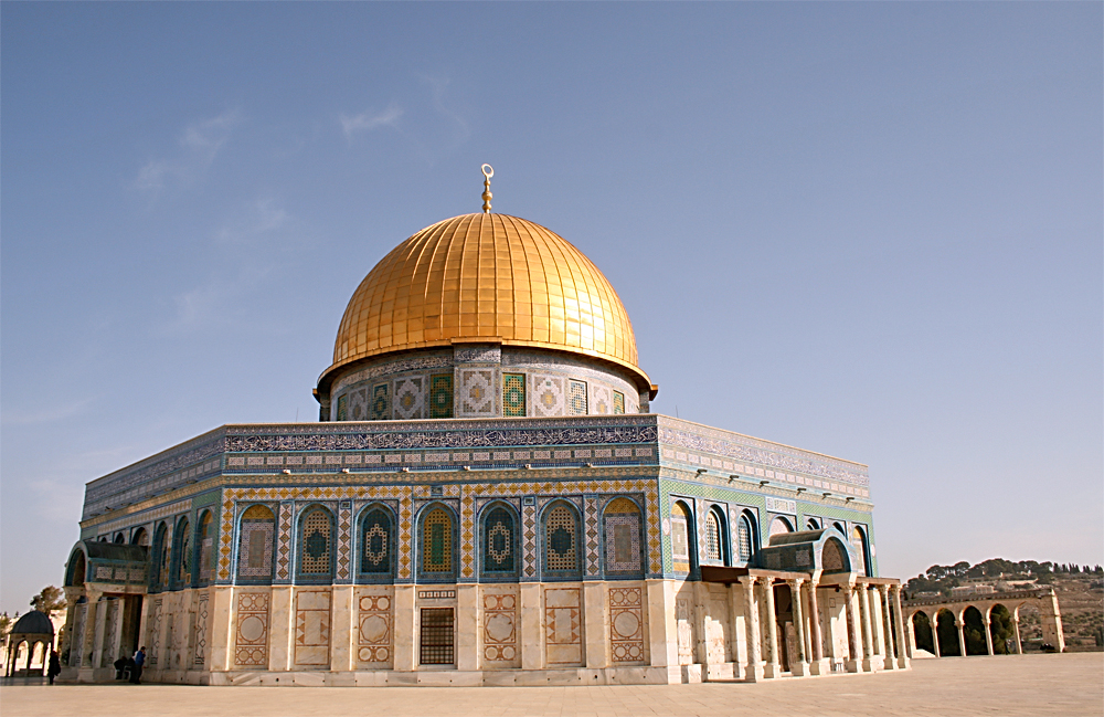 The Dome of the Rock in Jerusalem in 2007.